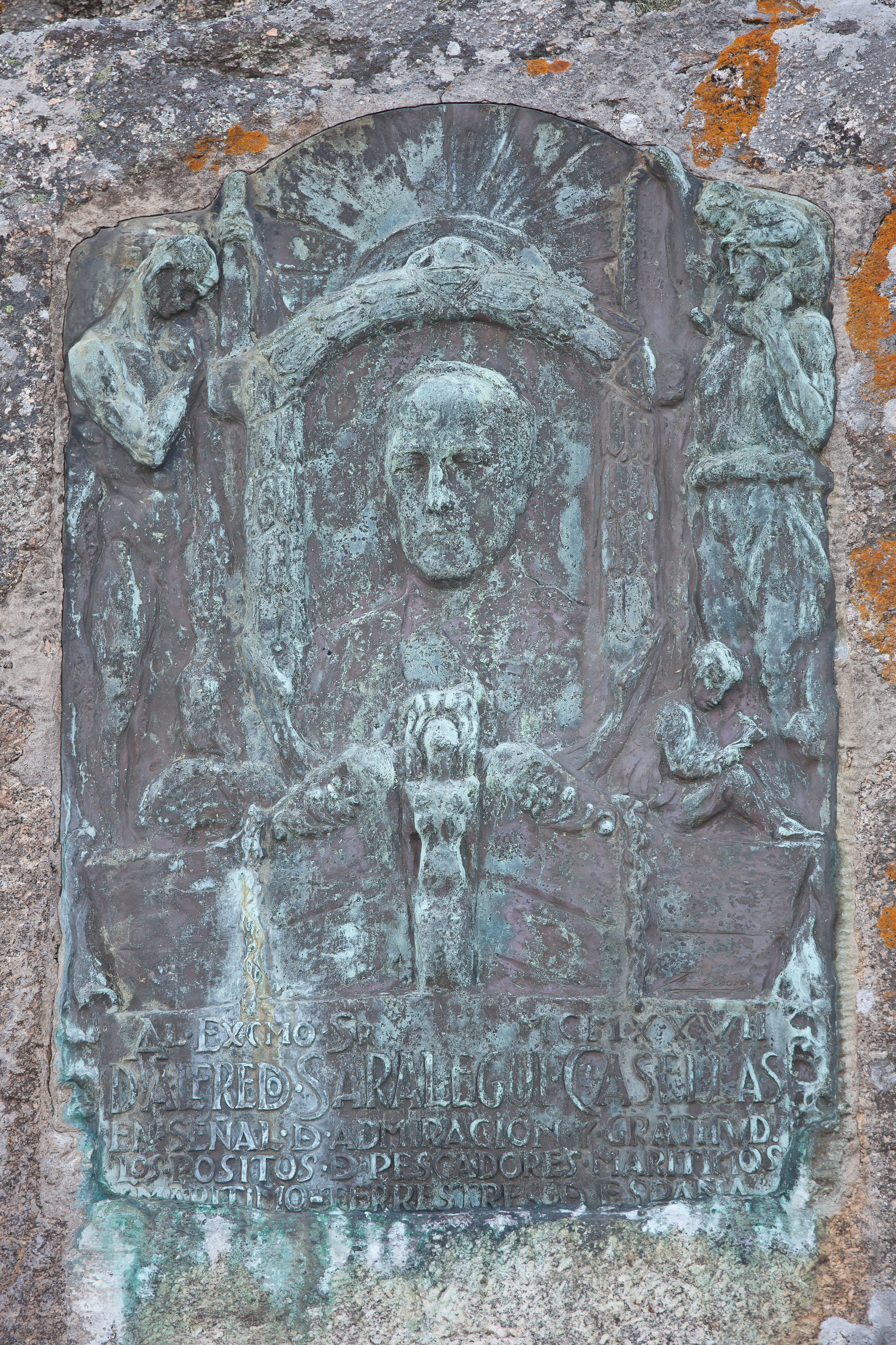 D. Alfredo Saralegui Casillas. Lighthouse of Fisterra, Galicia (Spain)